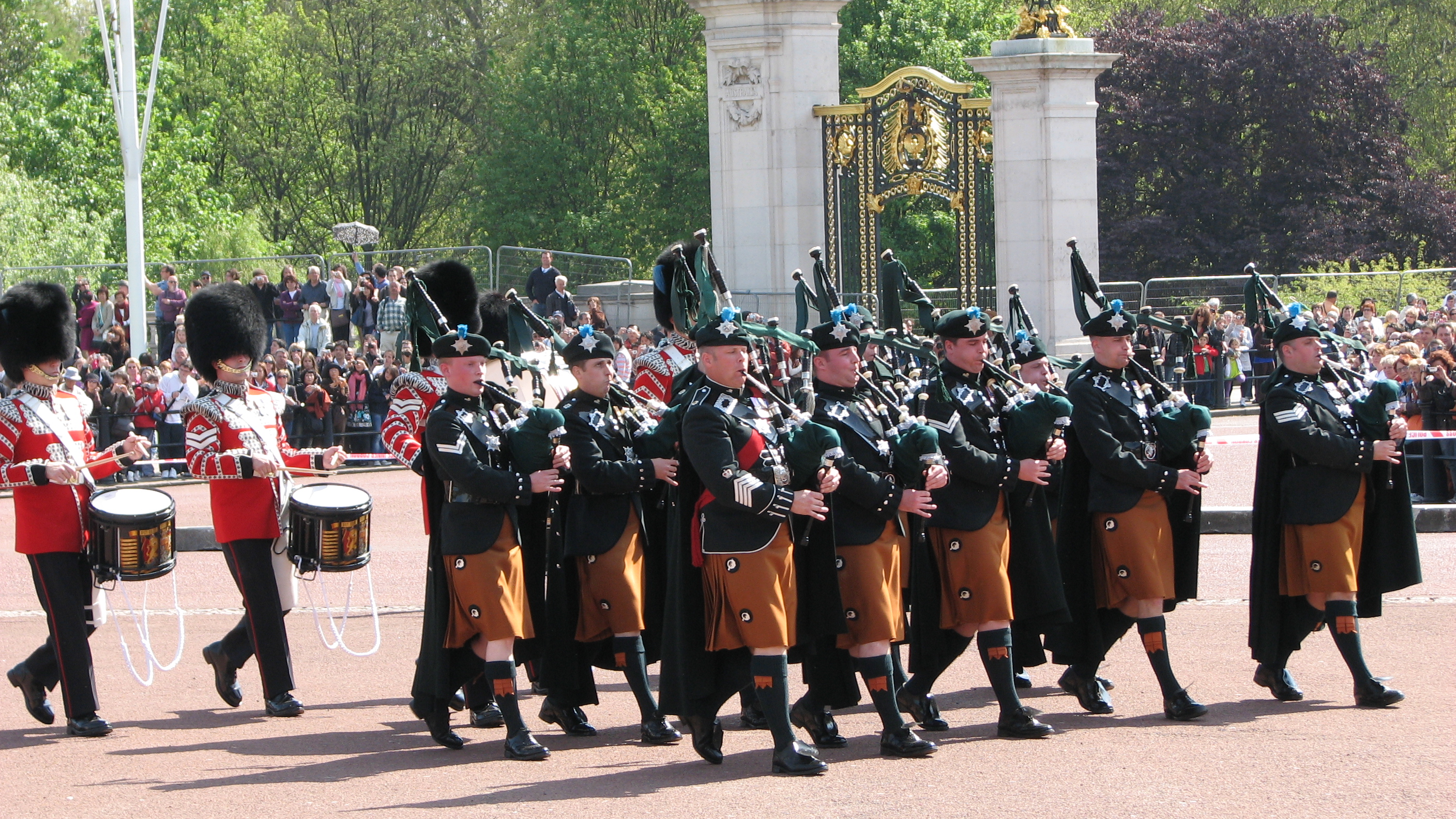 London - April 2009